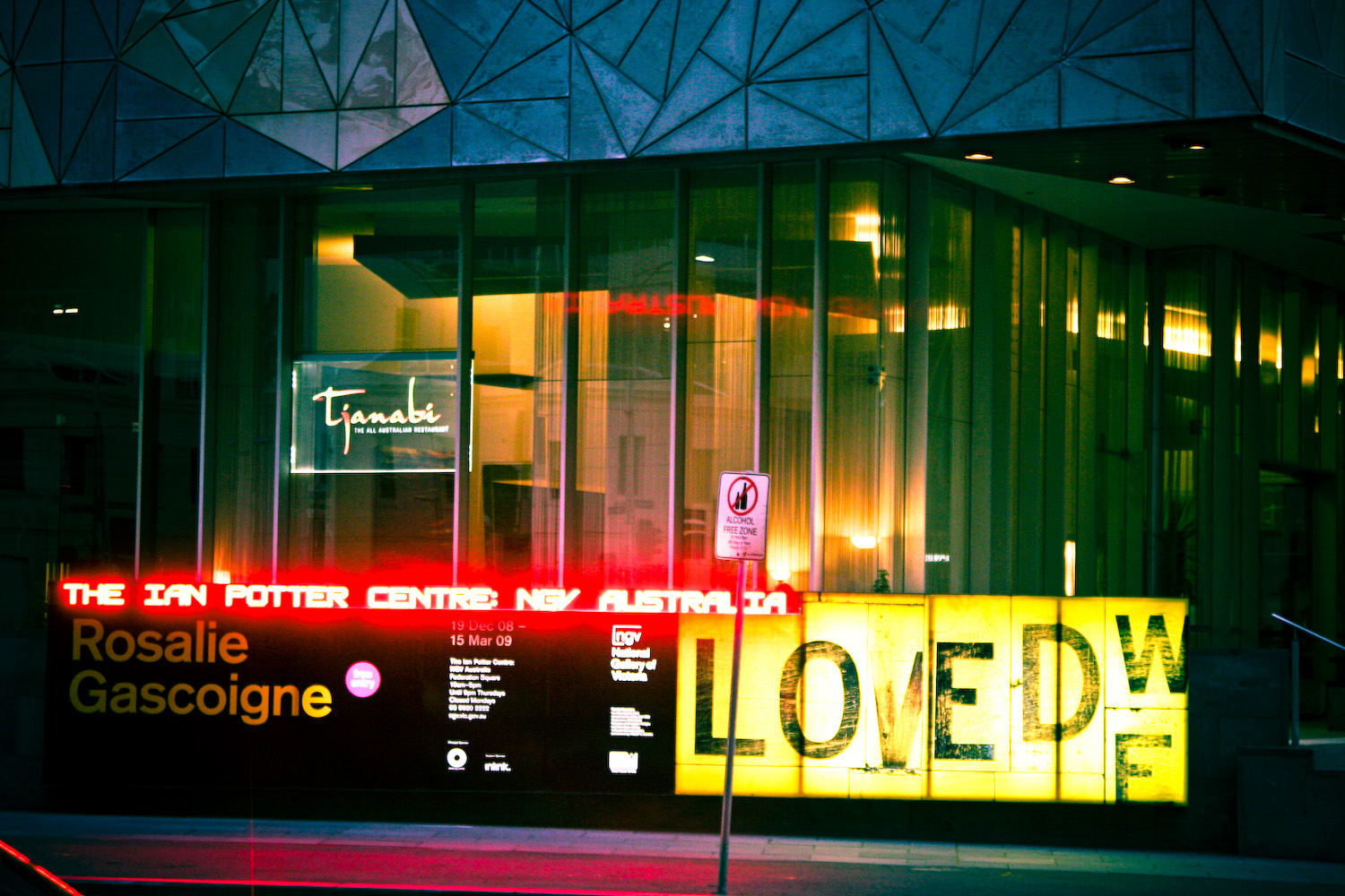 Ian Potter Centre - NGV Australia at Federation Square in Melbourne